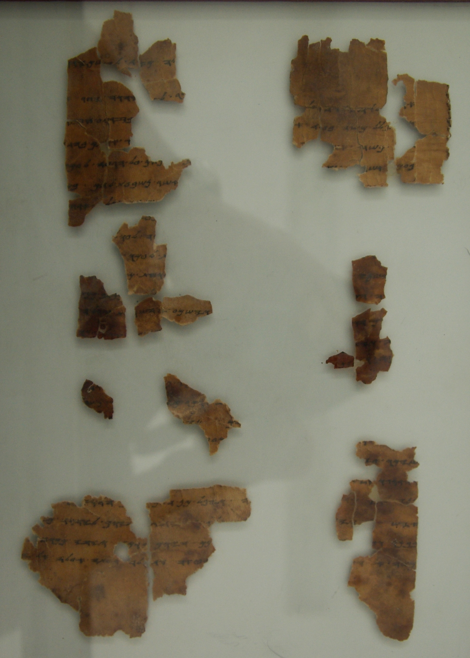 Jordan, Amman, Dead Sea Scroll 4Q22